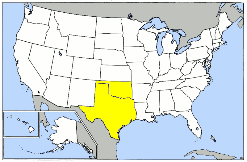 33d Flying Training Wing (World War II) - Map Based upon for basemap; Lineage and History of 31st Flying Training Wing (World War II); United States Air Force Historical Research Agency Document, Maxwell AFB, Alabama